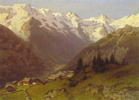 Maria Von Keudell - Alpine landscape near Mürren in the Bernese Oberland